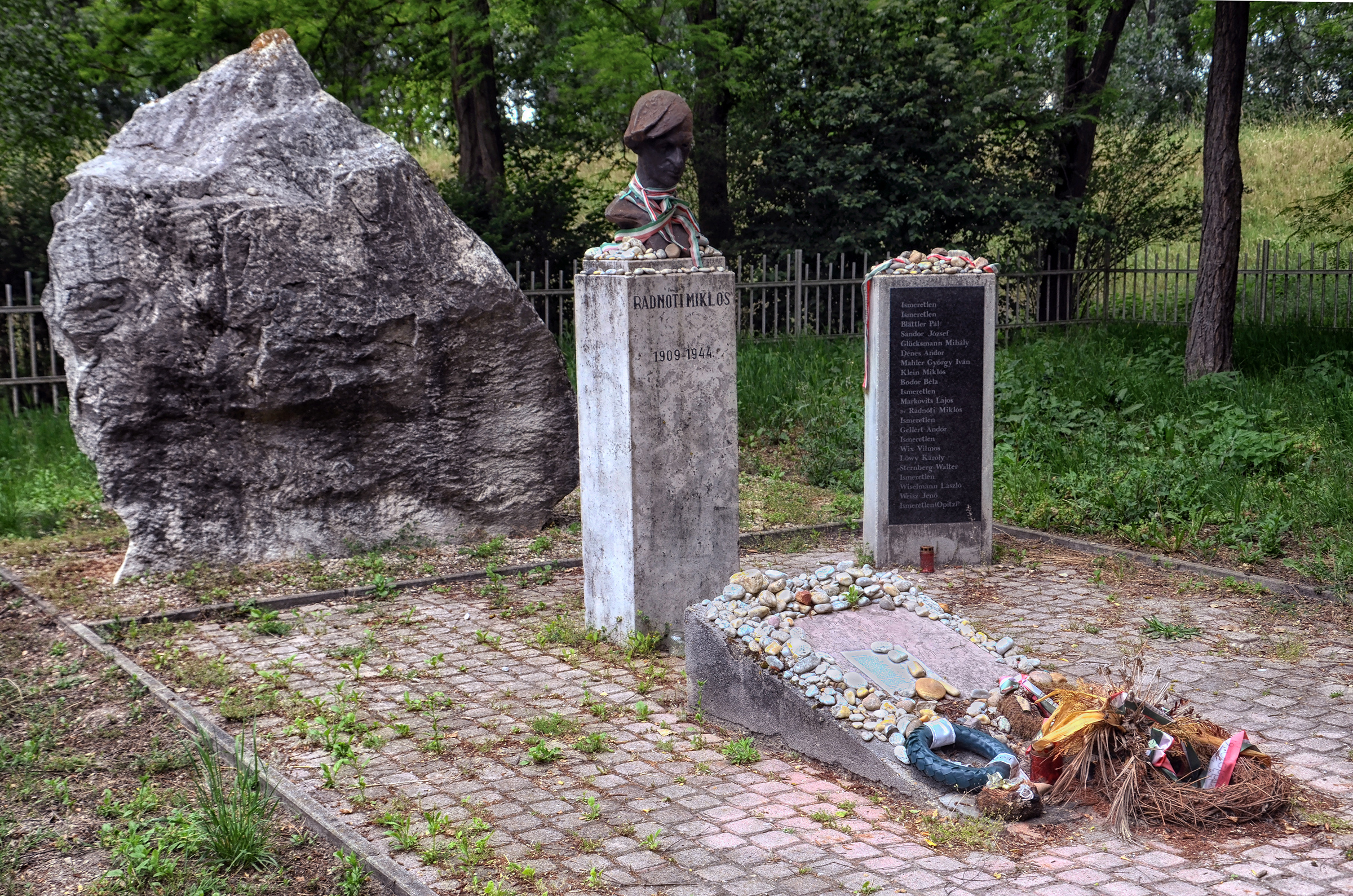 The Miklós Radnóti Memorial by Abda, Hungary at the place of his execution in November 1944